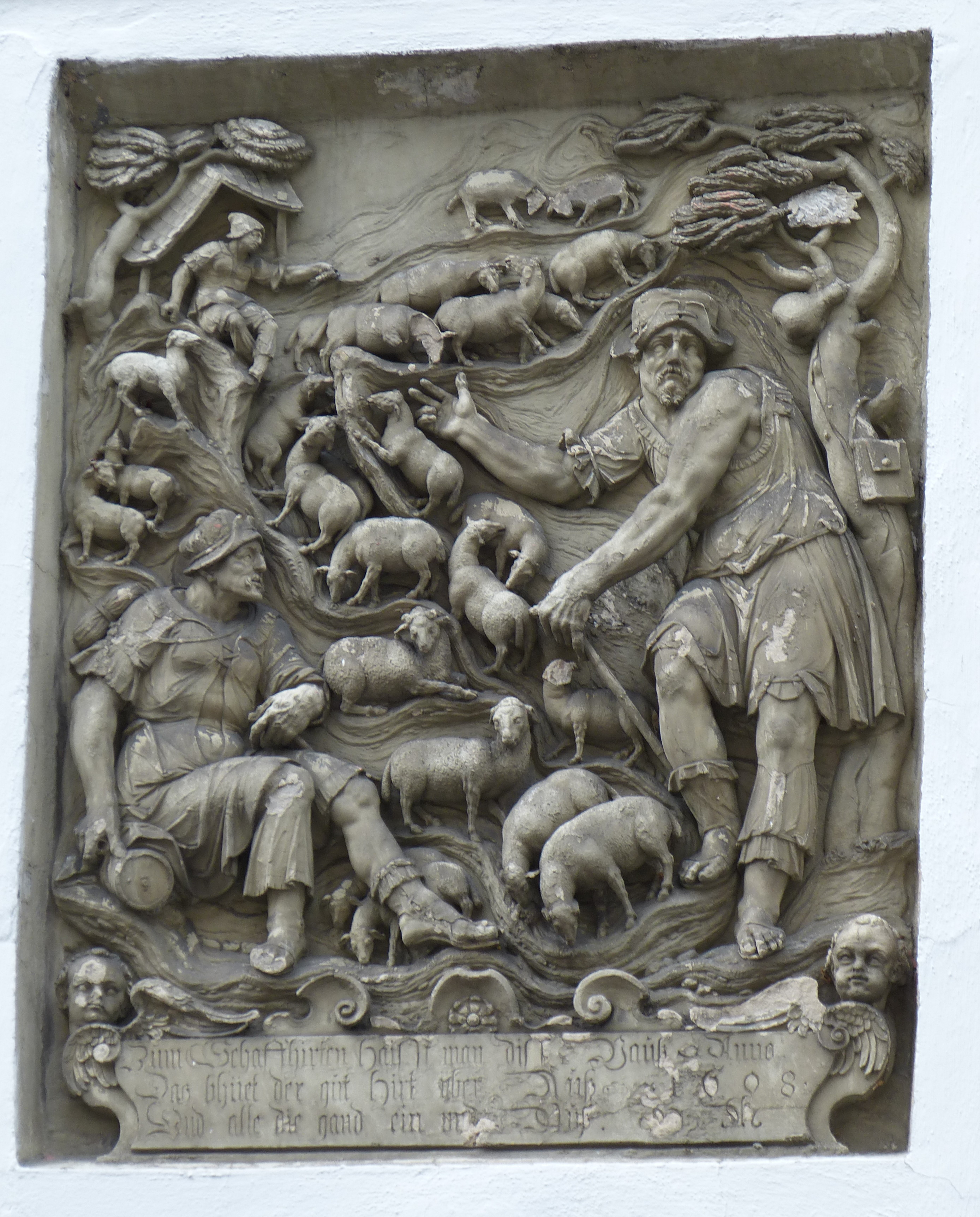 Konstanz ( Baden-Württemberg ). Relief of the Good Shepherd ( 1608 ) by Hans Morinck at the house of the sculptor.